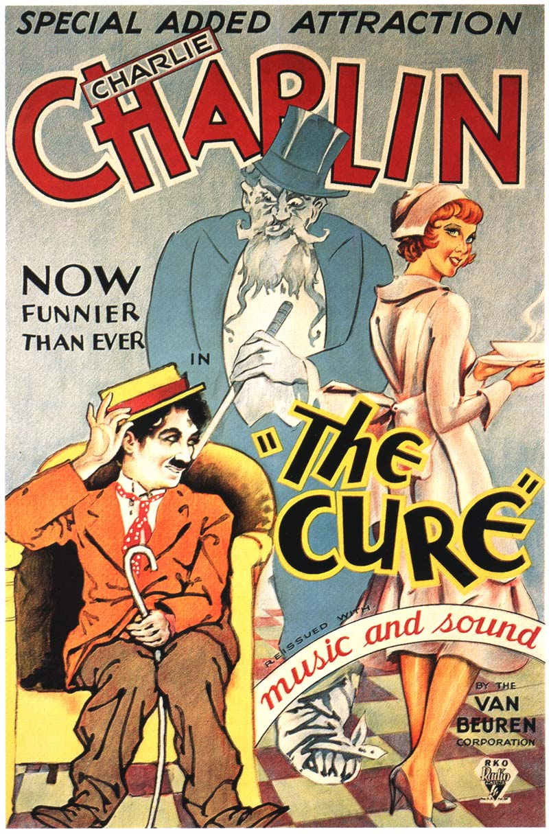 Movie poster for the 1917 movie The Cure.